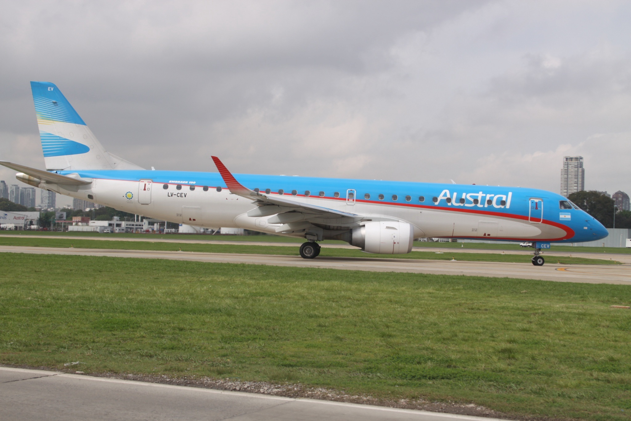 At Buenos Aires Aeroparque